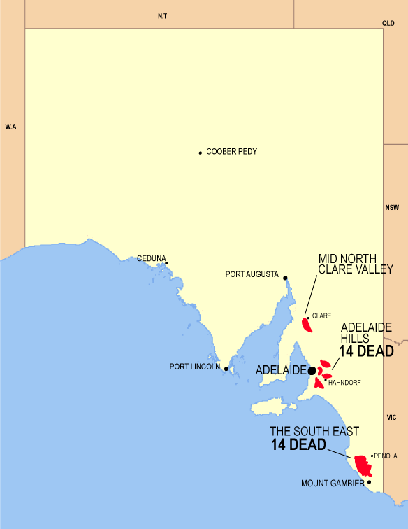 An indicative map of areas affected in South Australia by the 1983 Ash Wednesday fires